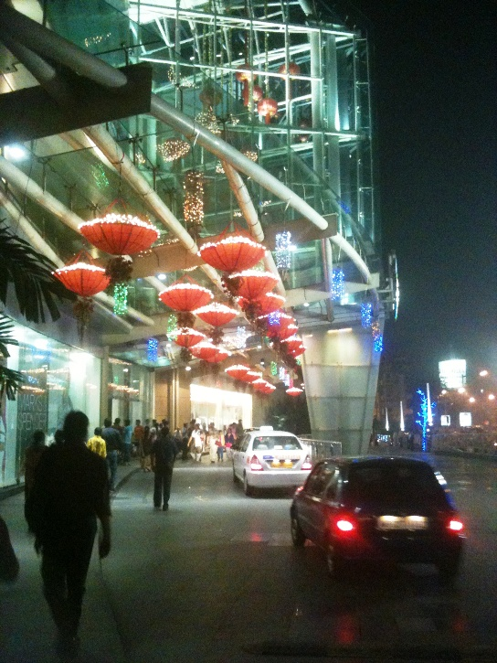 Entrance of South City Shopping Mall, Kolkata, India.